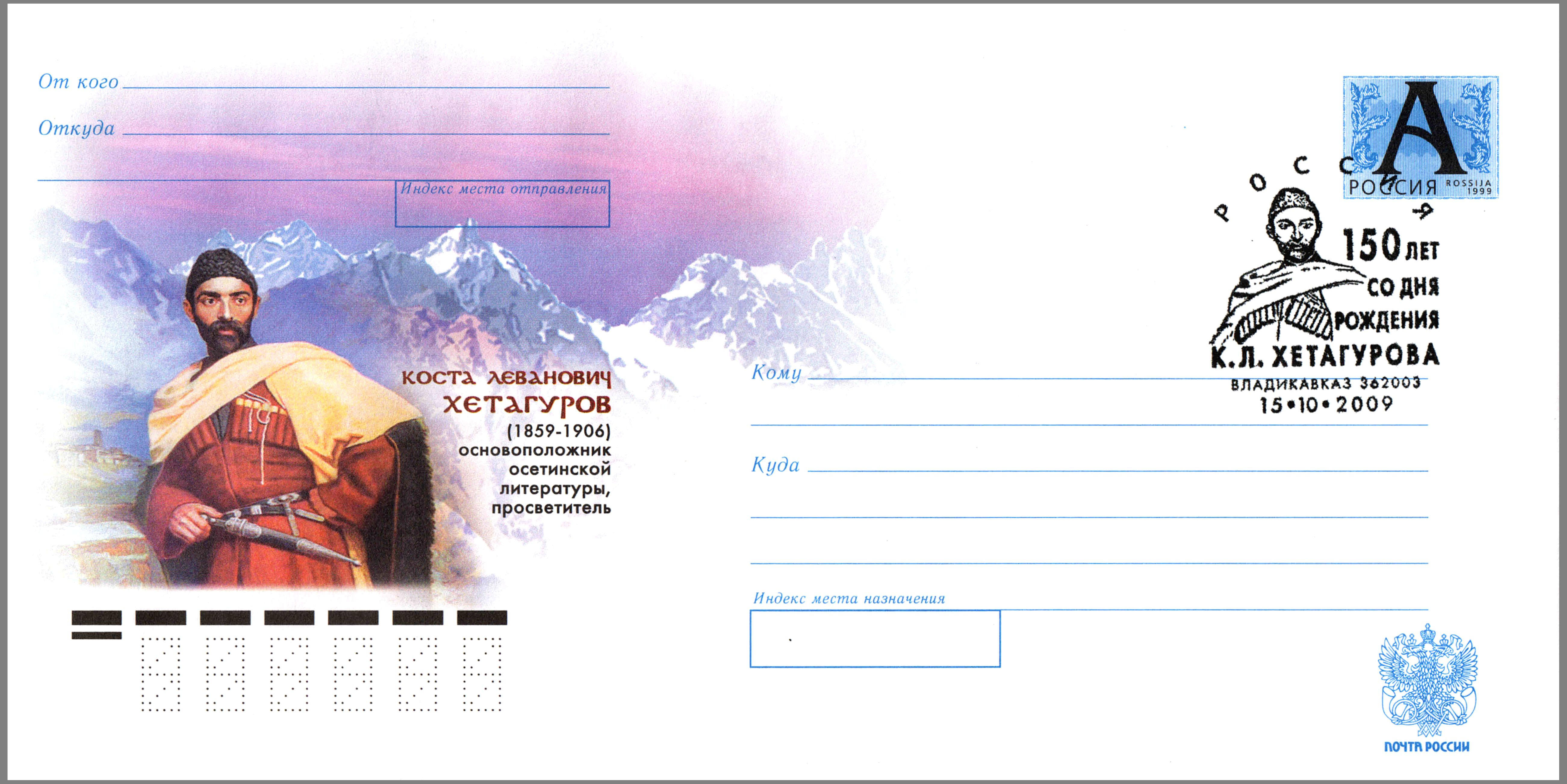 150th birth anniversary of Kosta Khetagurov (1859–1906) an Ossetian poet, a painter and a sculptor, the founder of the Ossetic literature. Illustrated postal stationery envelope with imprinted definitive non-denominated stamp “Letter A” (for domestic letters, weight 20g or less). Russia, 21 August 2009, Catalogue PTC Marka No 169К-2009/2009-185. Envelope paper with watermarks “ПОЧТА РОССИИ”. Offset printing. Size of the envelope: 110×220 mm. Print run: 500,000.The fragment of the panting Kosta by Azanbek Dzhanaev (1959, the National Museum of the Republic of North Ossetia–Alania).The special cancellation: Vladikavkaz, 15 October 2009, PTC Marka Catalogue No 183ш-2009.